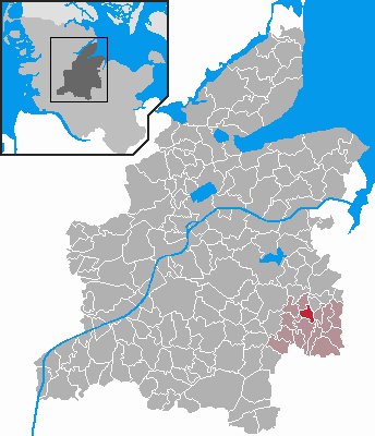 Locator maps of municipalities in Schleswig-Holstein - District Rendsburg-Eckernförde